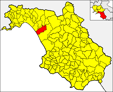 Locator map of the municipality of Battipaglia (red) within the Province of Salerno